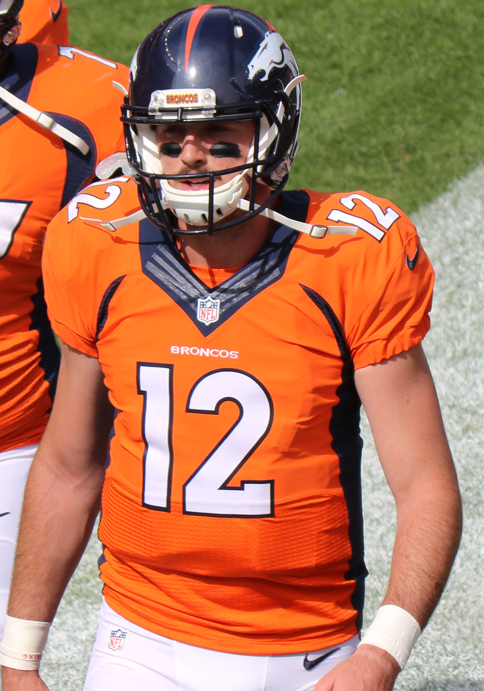 Paxton Lynch, a player on the National Football League.